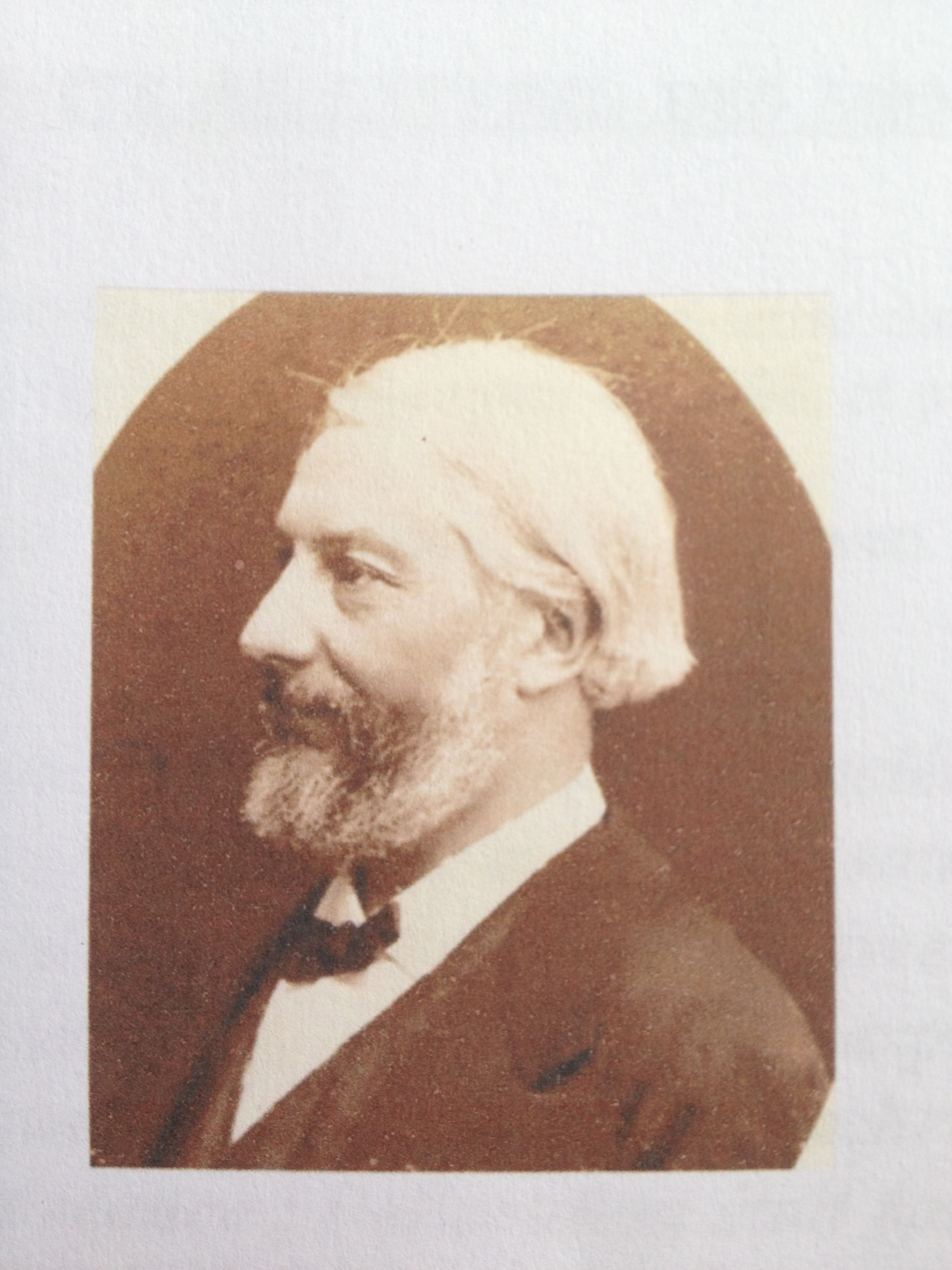 Achille Eyraud (1821-1882), French writer.